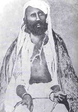 Tantya Tope, said to have been the rebels' best general, after his capture in 1859